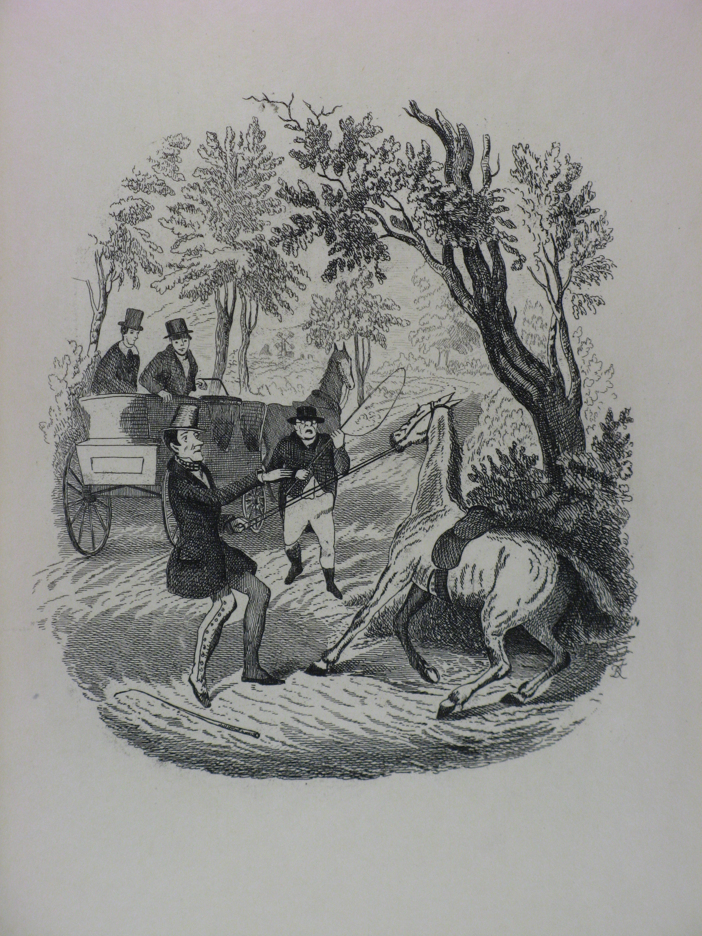 A photograph of an engraving in The Writings of Charles Dickens volume 1, The Pickwick Club, titled "Winkle soothes the Refractory Mare".